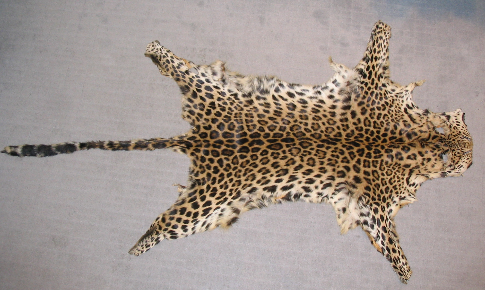 Leopard fur-skin